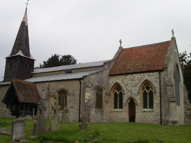 All Saints' parish church, Lydalls Road, Didcot, Oxfordshire (formerly Berkshire), seen from the southeast, showing the timber-framed and shingled steeple (left) and 14th-century chancel (right)